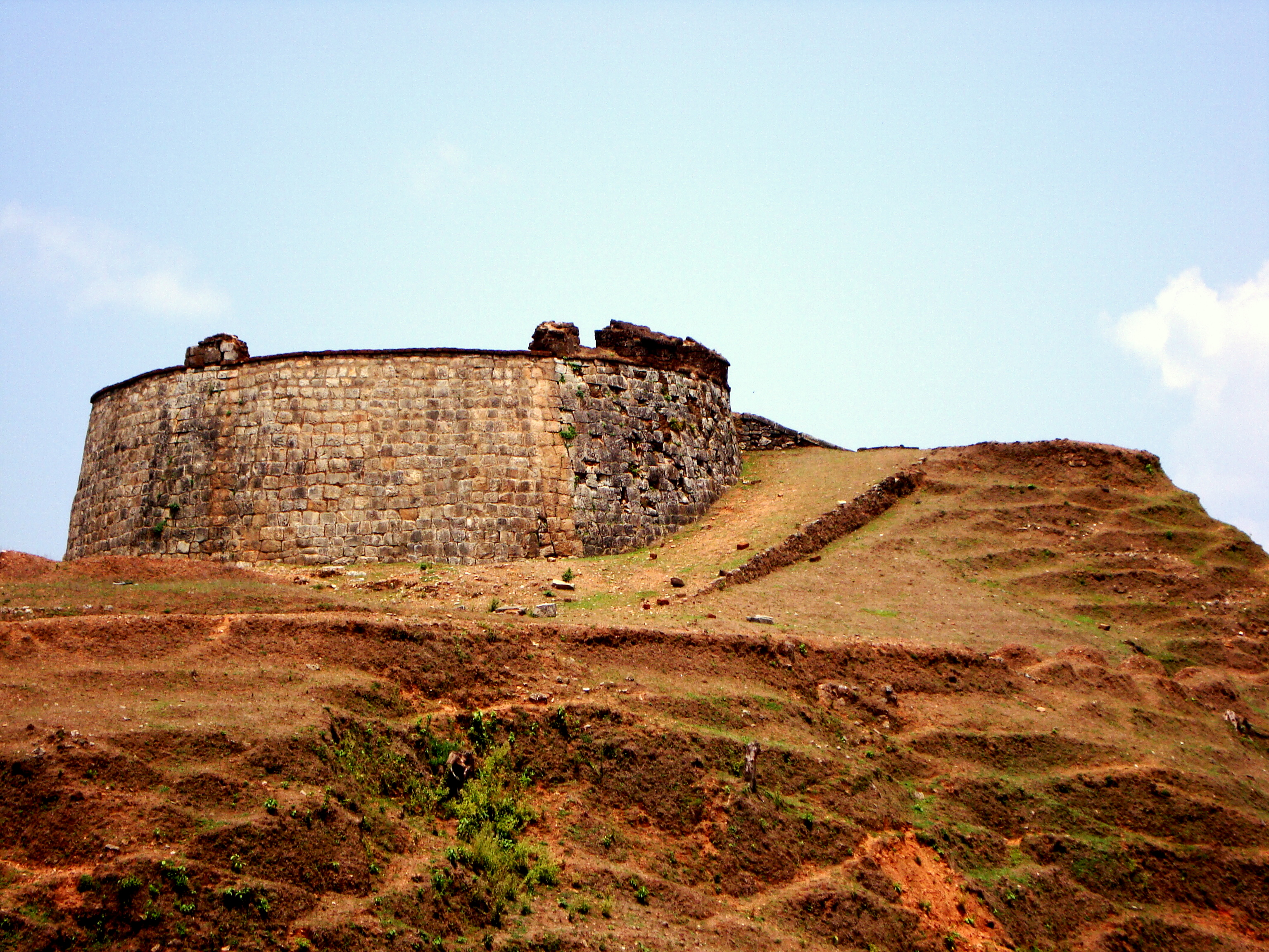 Palace site Outside the Fort